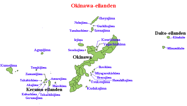 Map of the Okinawa Islands and Daitō Islands, Okinawa Prefecture, Japan